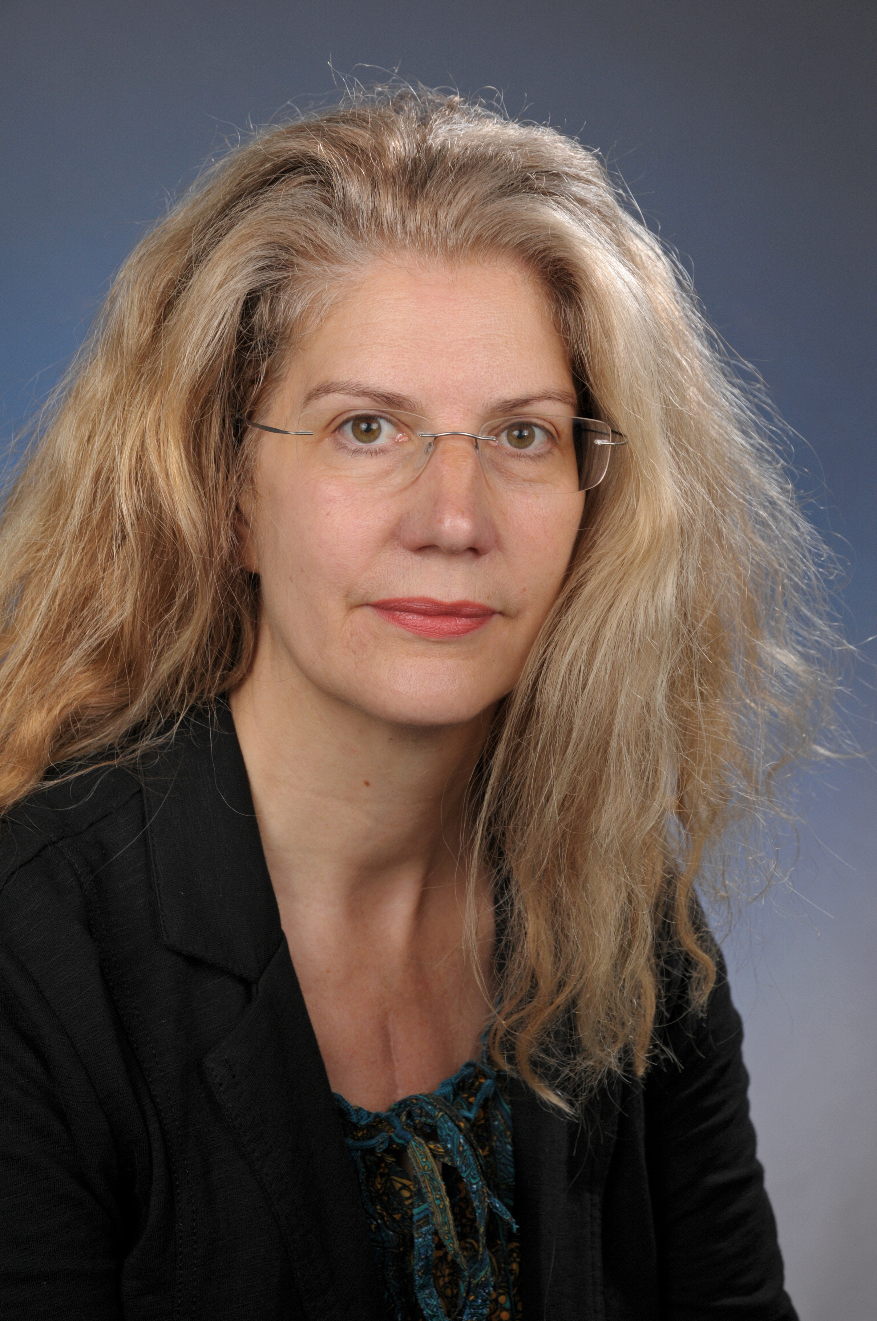 Portrait of Dorothee Richter